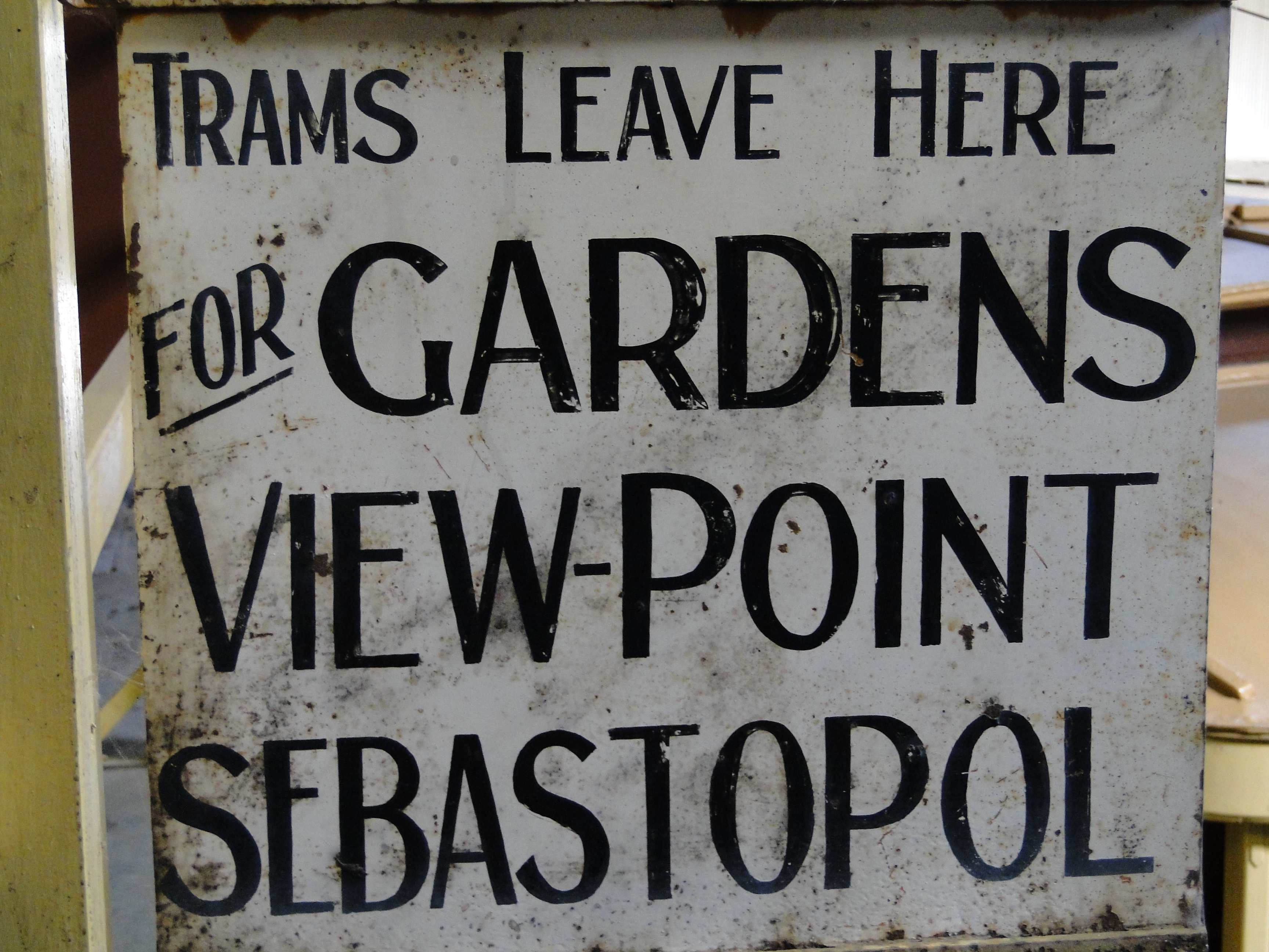 Tramway destination board from the collection at the Ballarat Tramway Museum collection, Ballarat, Victoria, Australia. The sign shows where to catch trams for the Botanical Gardens, View Point, and Sebastopol.